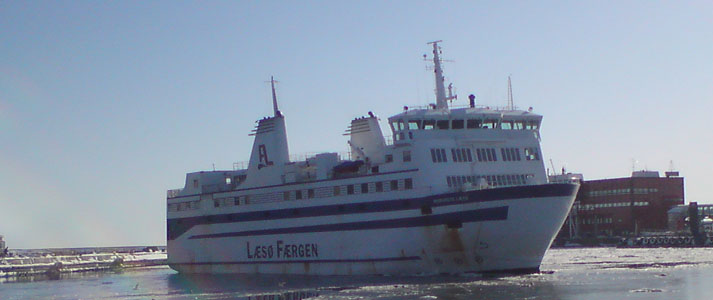 The ferry Margrete Læsø in Frederikshavn.